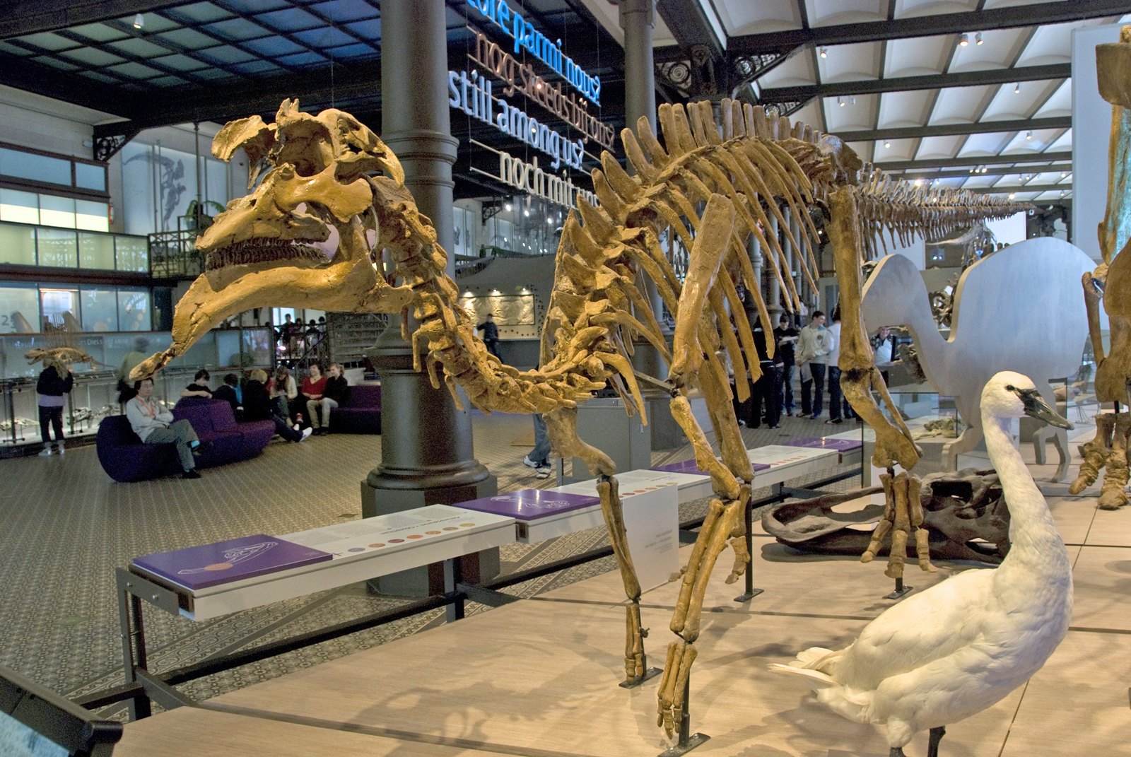 Replica of Amurosaurus at Brussels